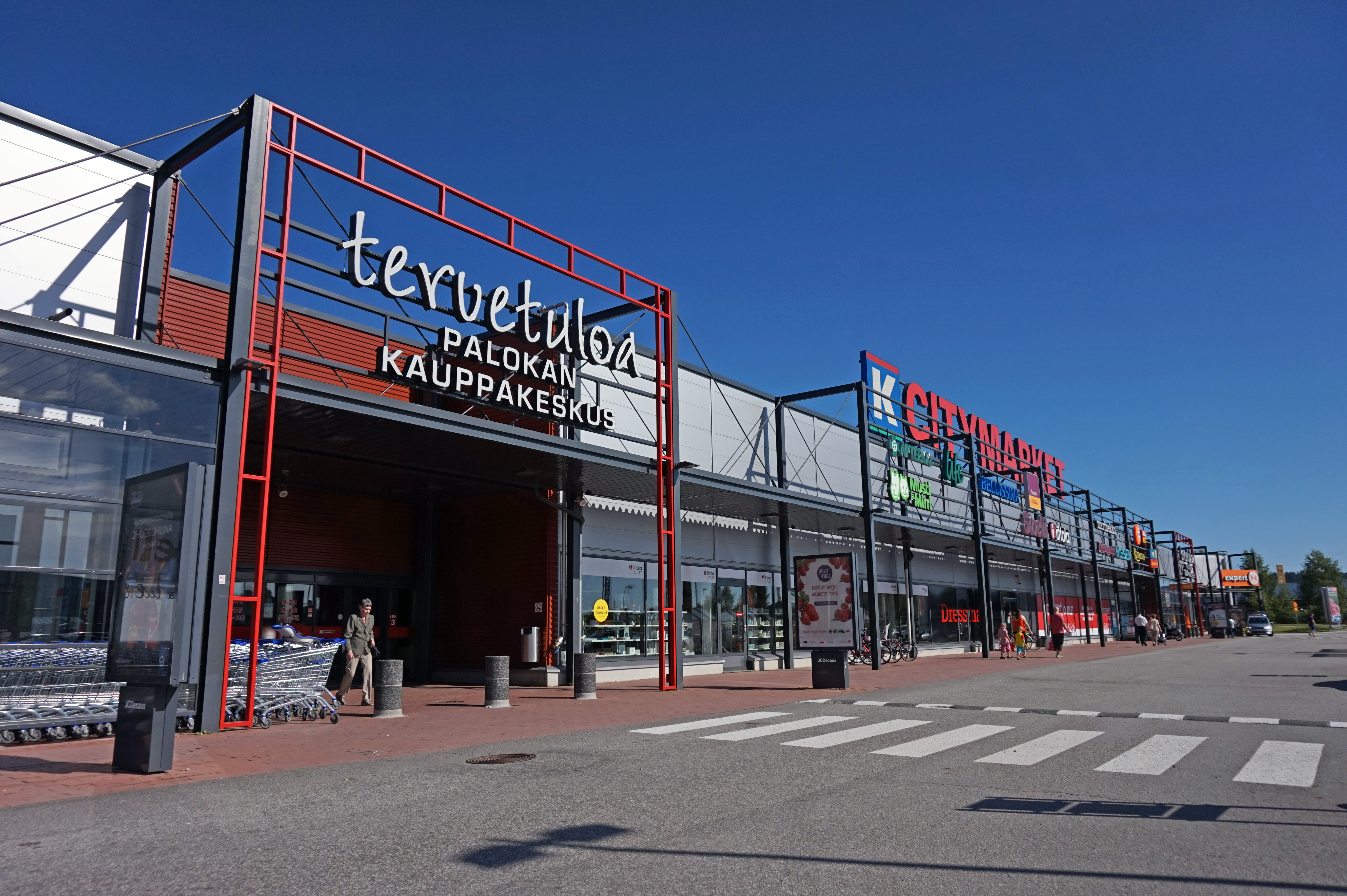 K-Citymarket Palokka, Jyväskylä.This photograph was taken with a Sony ILCE-5000